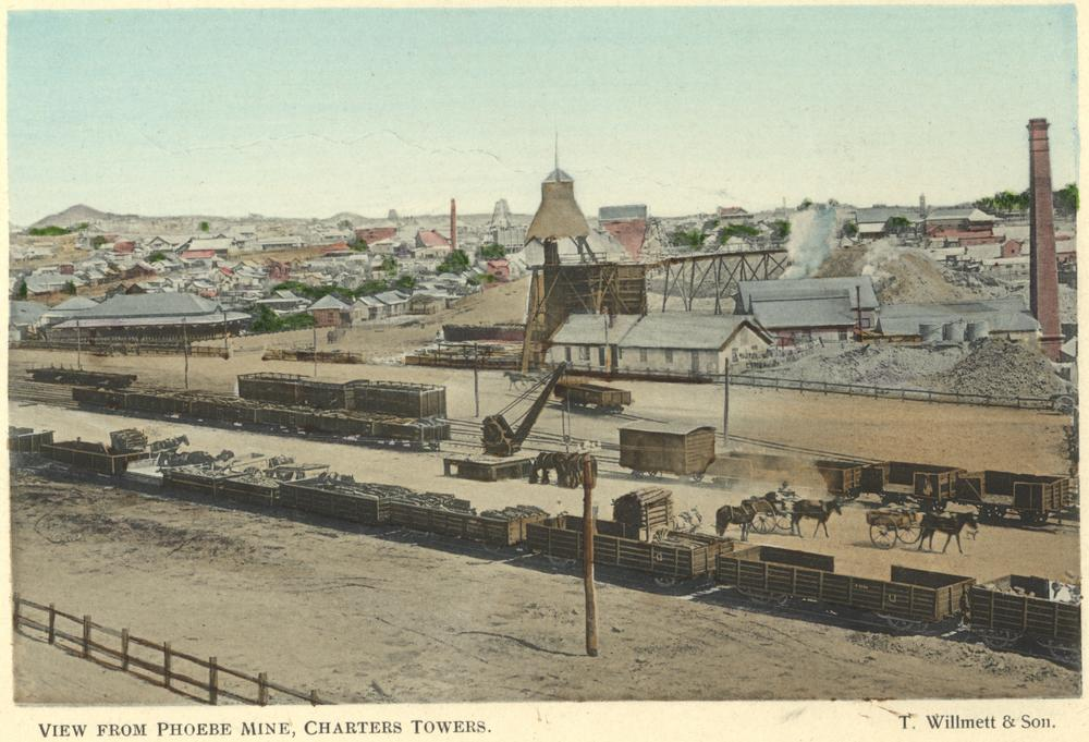 View from the Phoebe Mine looking towards the centre of town, Charters Towers, 1904. Due to the Gold boom between 1872 and 1899, Charters Towers operated the only Stock Exchange outside of a capital city. During this period, the population was approximately 27,000, making Charters Towers, Queensland s largest City outside of Brisbane. Today the main industries are mining and beef cattle. There are also several world class boarding schools in the area. This is a photograph taken from a small album of hand coloured photographs about Charters Towers, including some mines, published by T. Willmett & Son, Charters Towers in 1904.